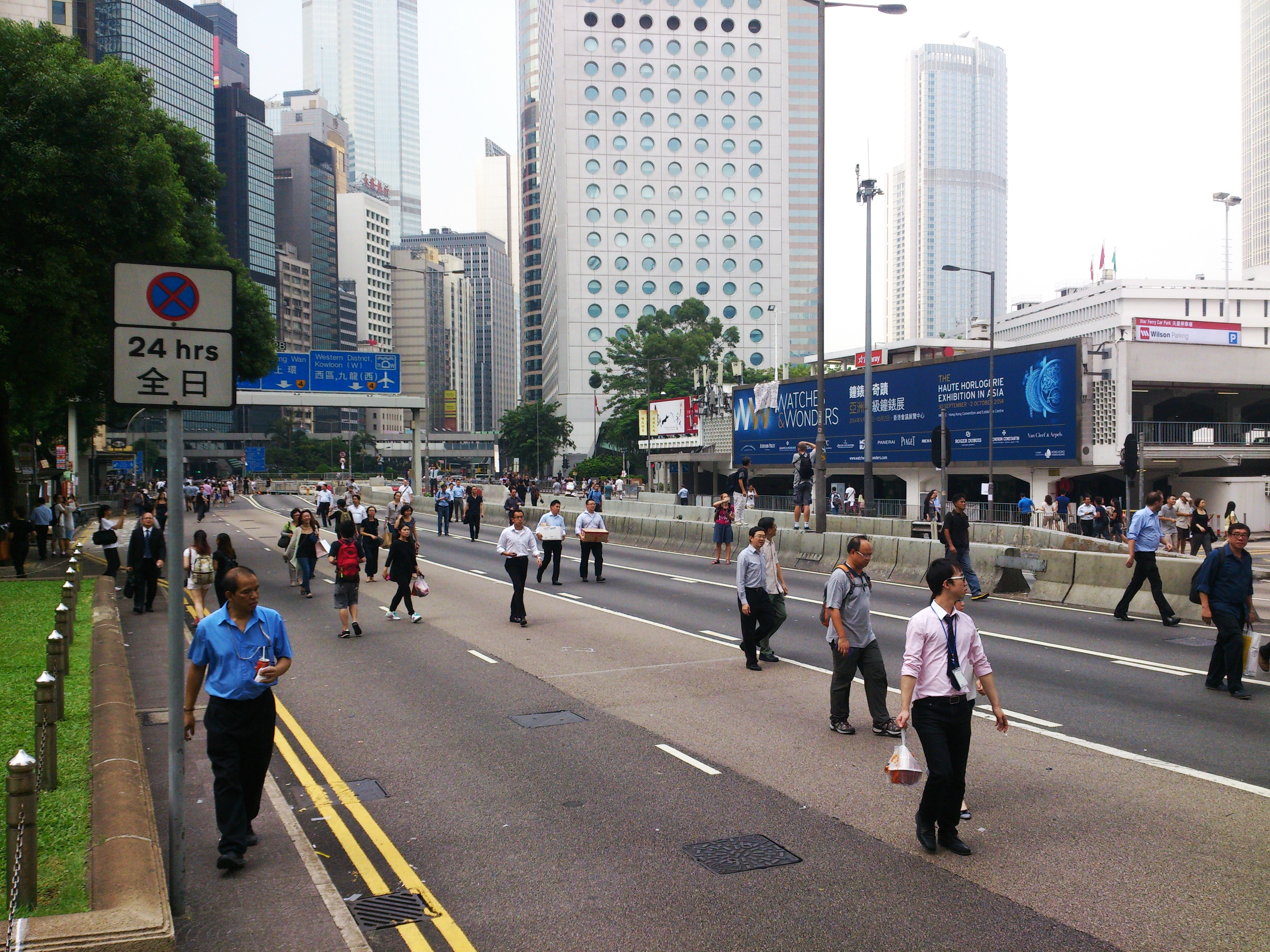 中文（香港）: Connaught Road Central near Cenotaph on 2014-09-30